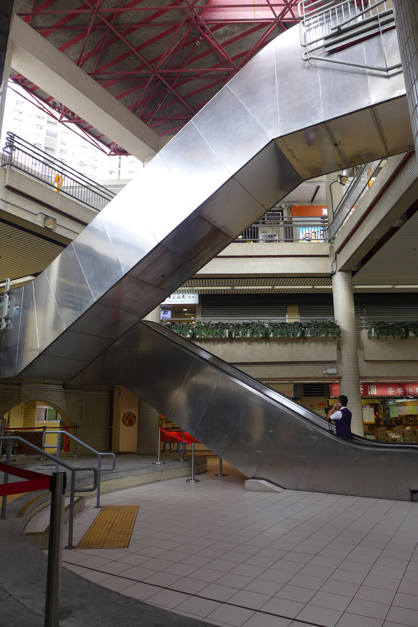 Cheung Hong Estate Commercial Centre No.2